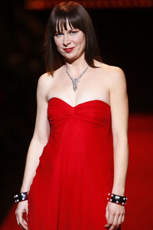 Mary Lynn Rajskub at The Heart Truth Fashion Show 2008